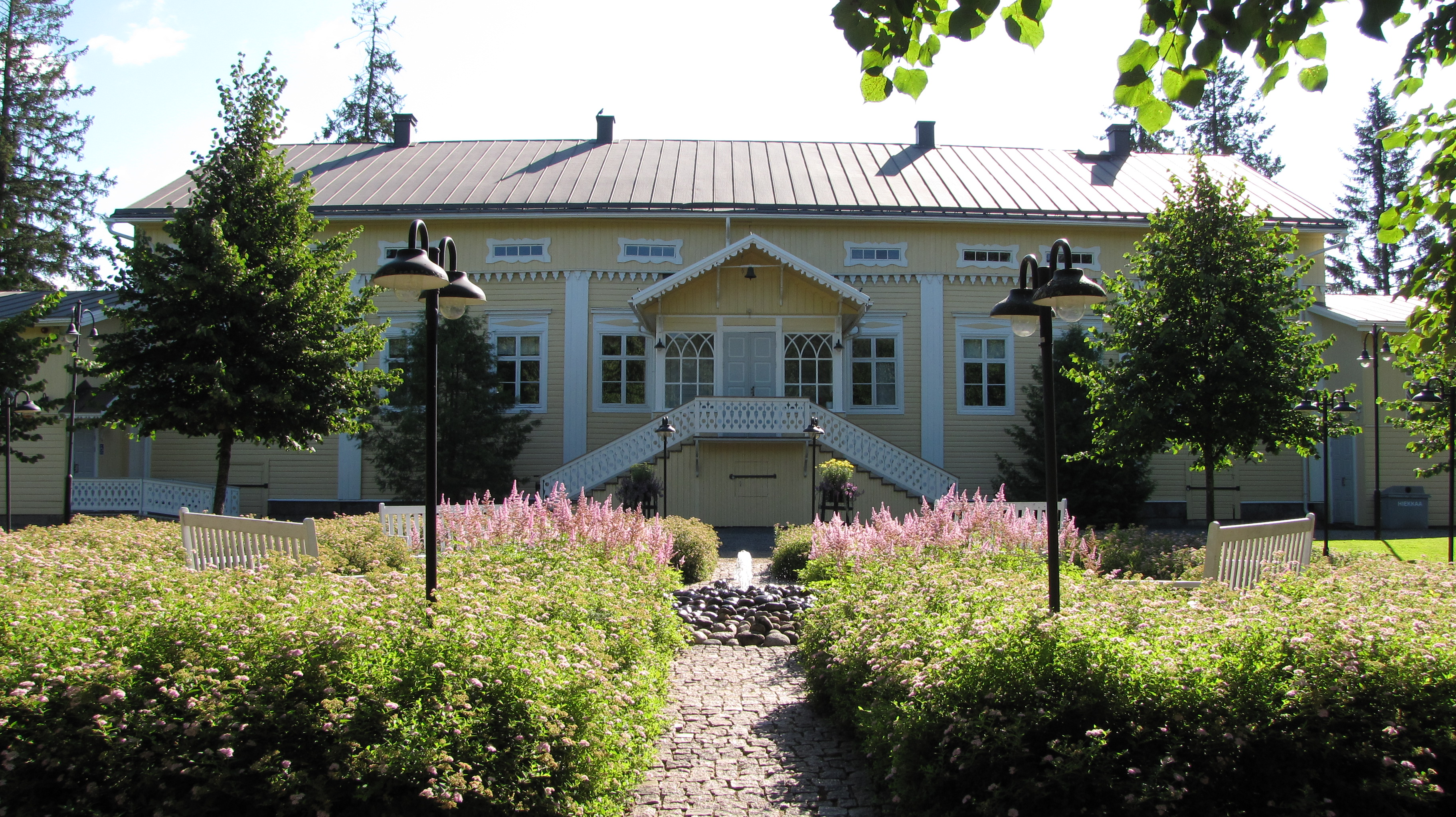 Sanssinkartano mansion in Kauhajoki, Finland. The mansion originally owned by the von Schantz family.